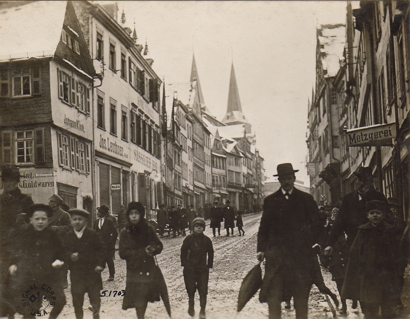 Street scene on Christmas morning, showing inhabitants and US forces stationed here, coming from St Peter's church in Kirchstraße, Montabaur, Germany December 25, 1918